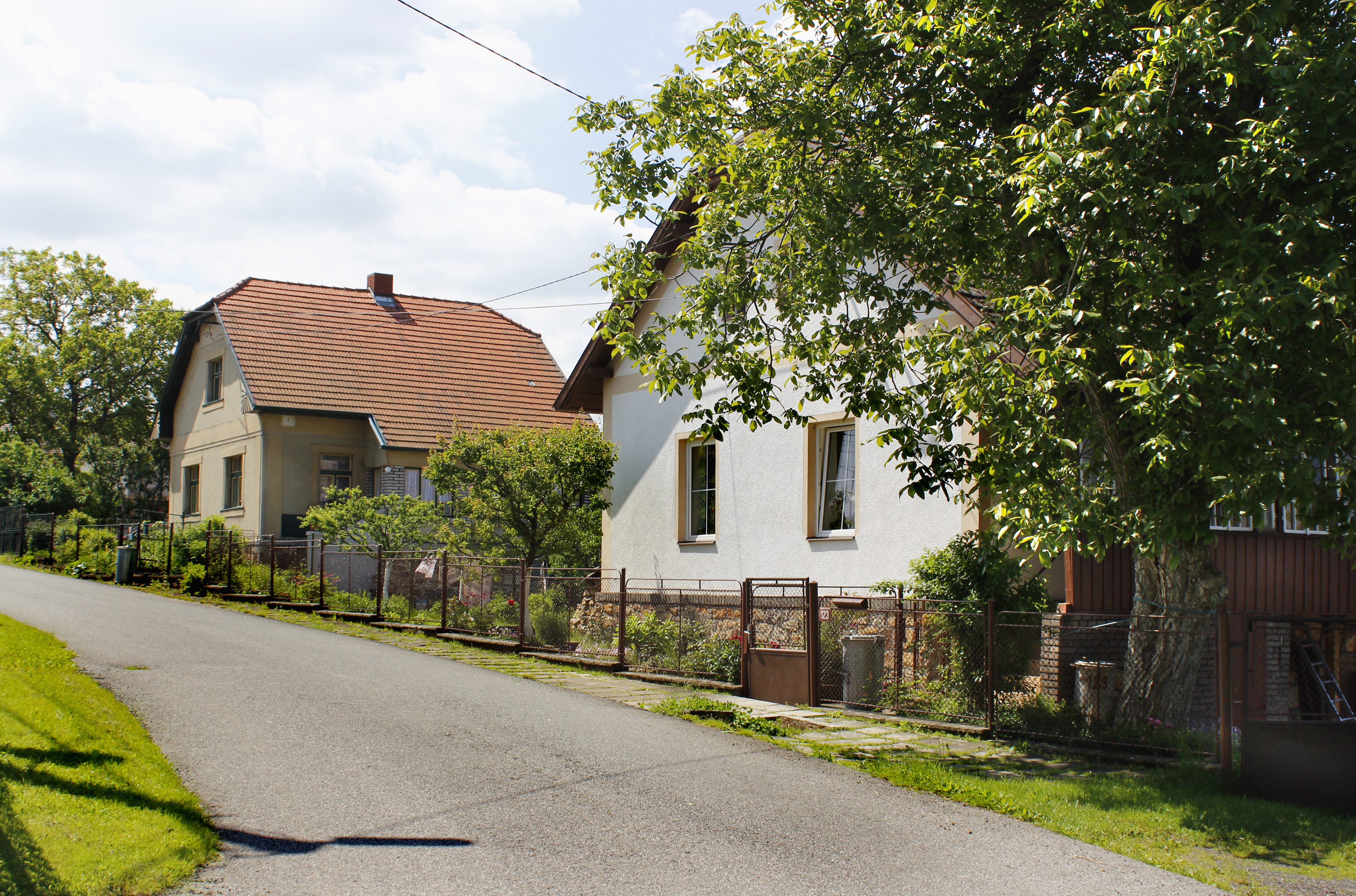 West part of Kvaň, part of Zaječov village, Czech Republic